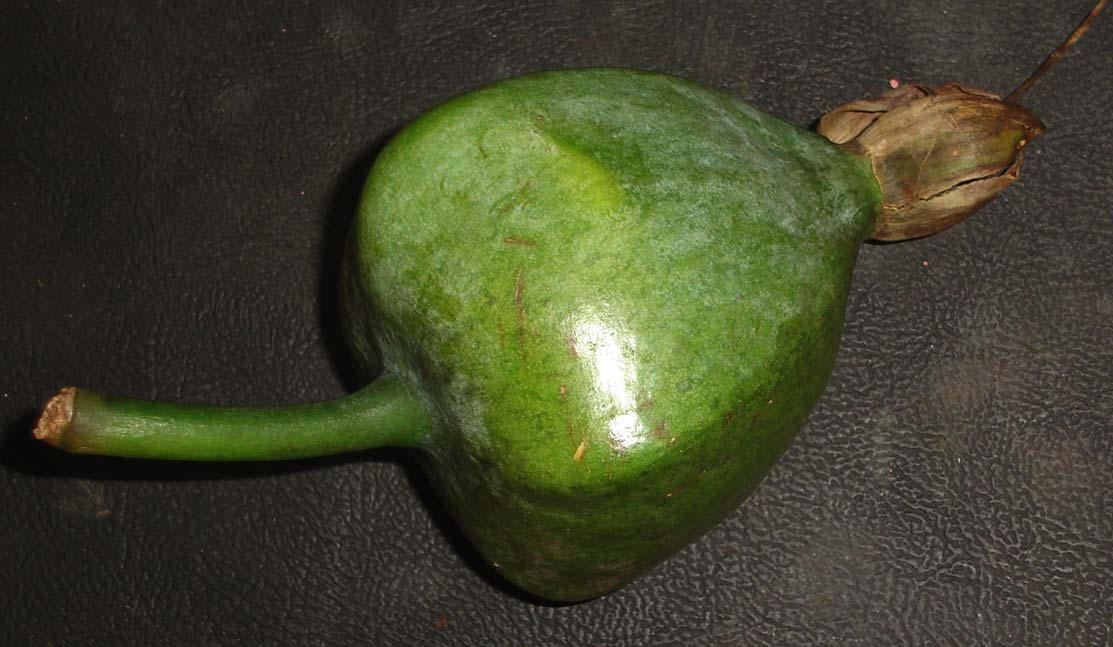 Seed of the Barringtonia asiatica (futu) on Tongatapu